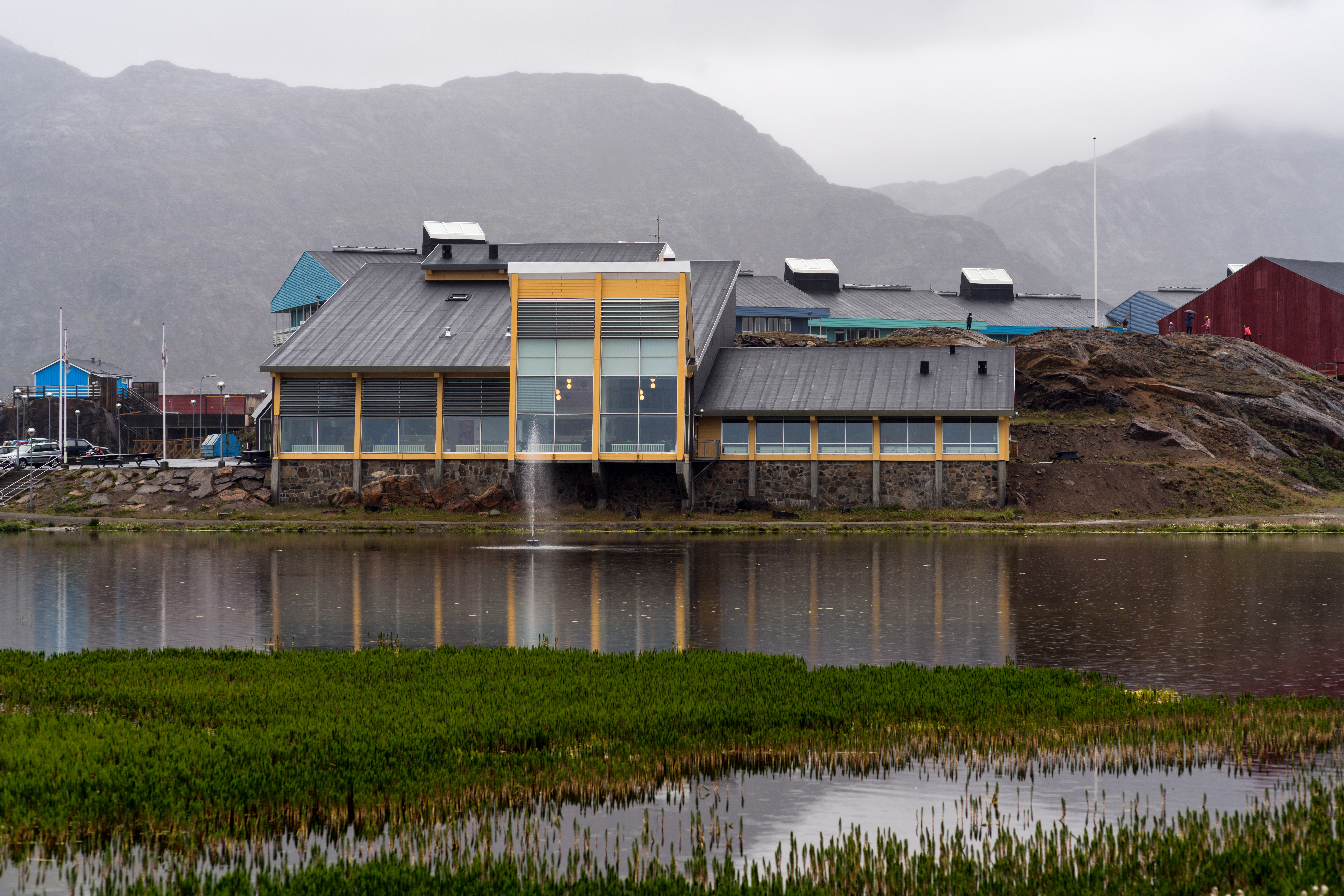 Taseralik Culture Centre (Greenlandic: Taseralik Kulturikkut) viewed from across Lake Nalunnguarfik in Sisimiut, Greenland.